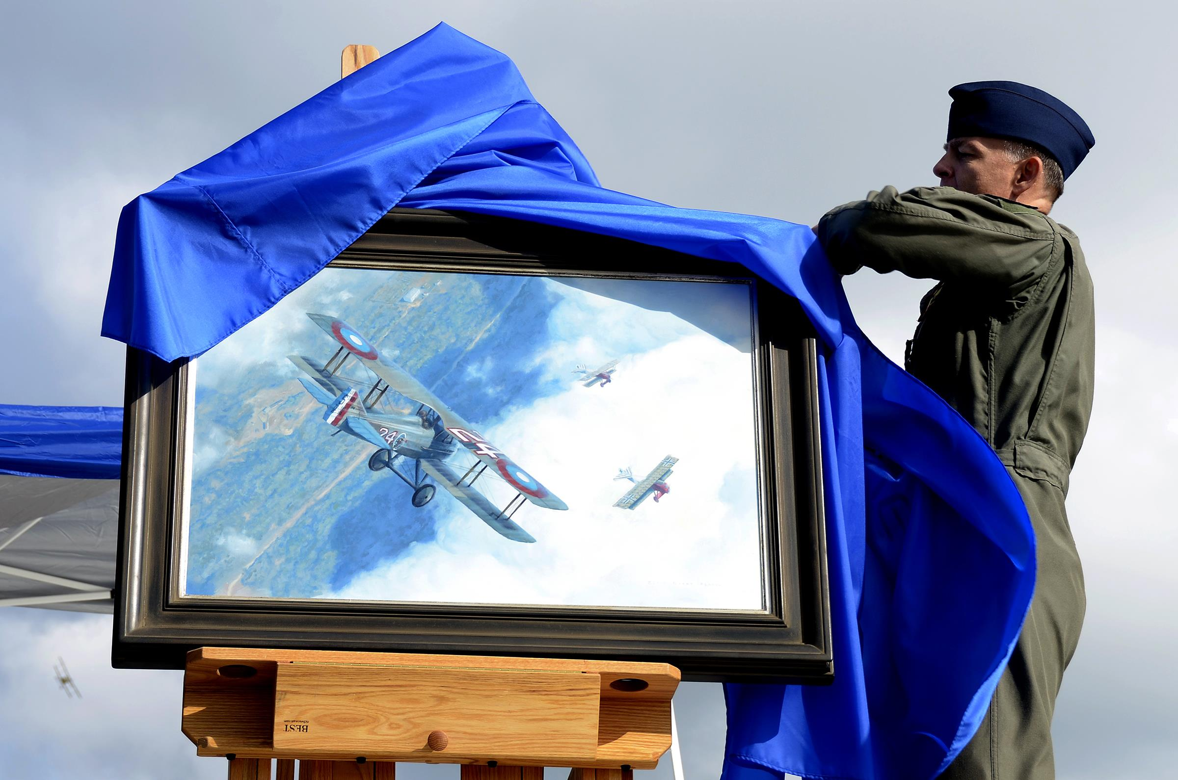 Unveiling of a painting commissioned by the U.S. Air Force of World War I ace Lt. Charles R. d'Olive in aerial combat on September 13, 1918.